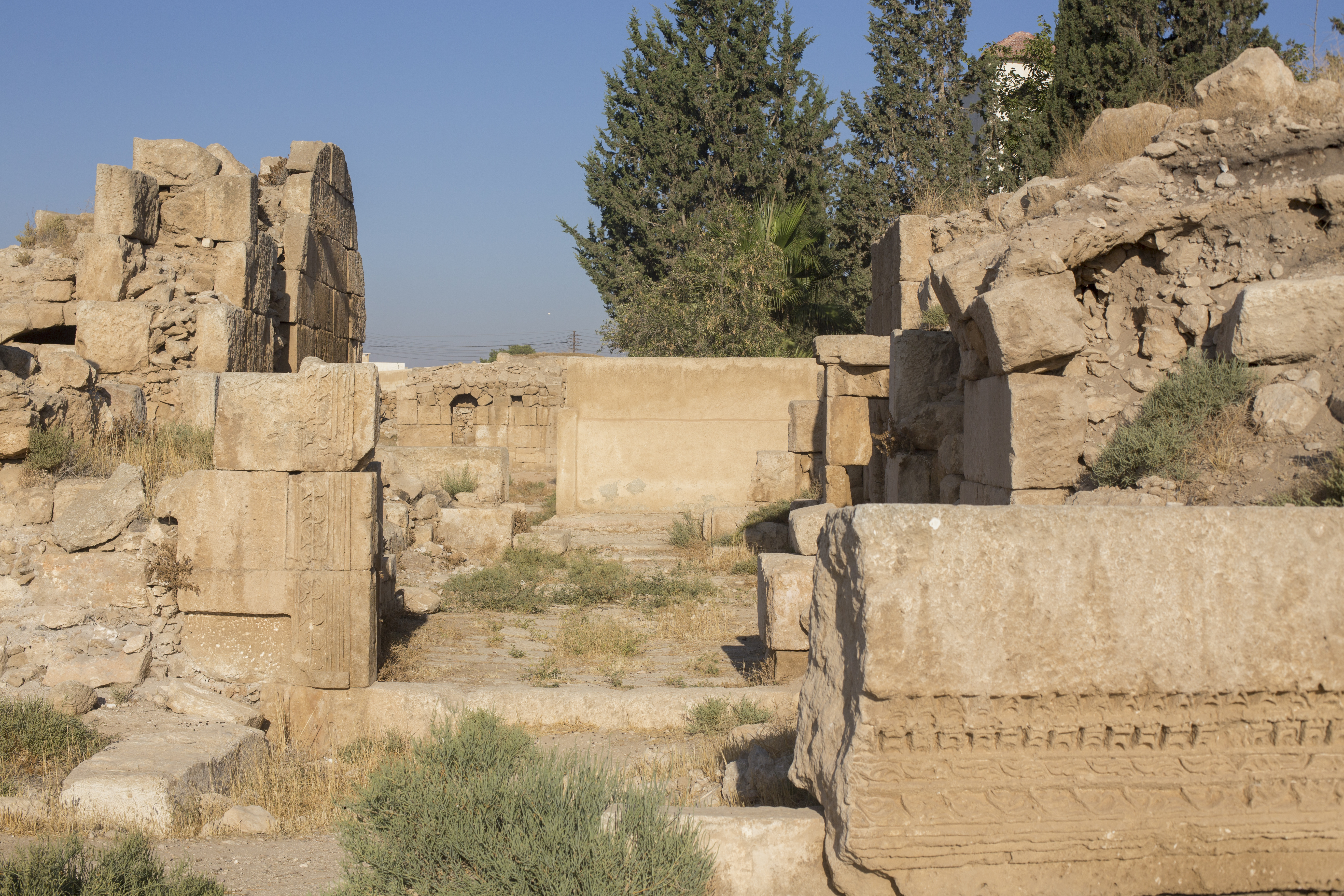 View into the courtyard of Qasr Al-Qastal